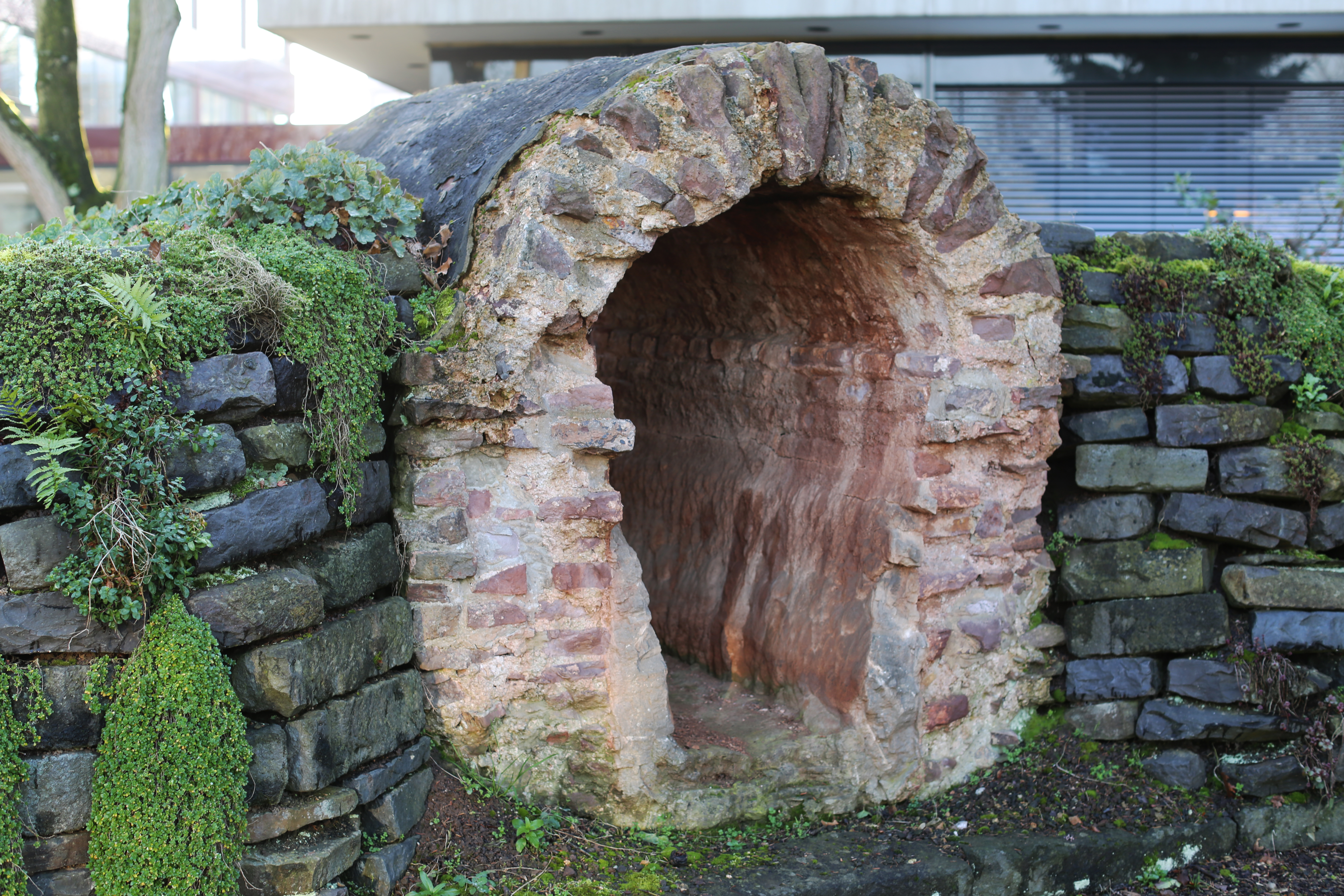 Part of Roman water conduit in Bornheim. Constructed in AD 80, carried water some 95 kilometres (59 mi) from the Eifel region to the ancient city of Cologne